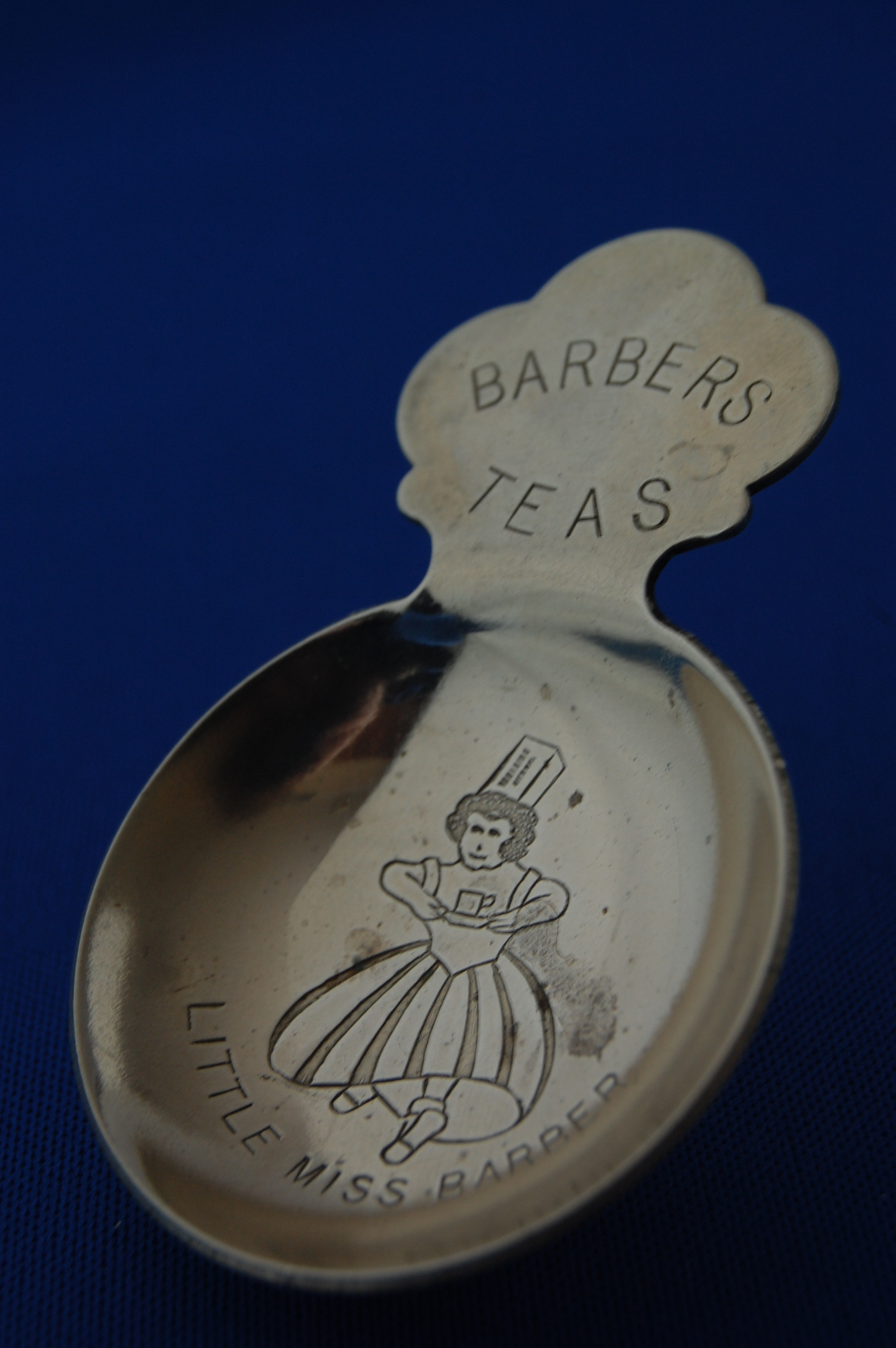 Mass-produced stainless steel caddy spoon, advertising Barbers Teas, and featuring the 'Little Miss Barber character.